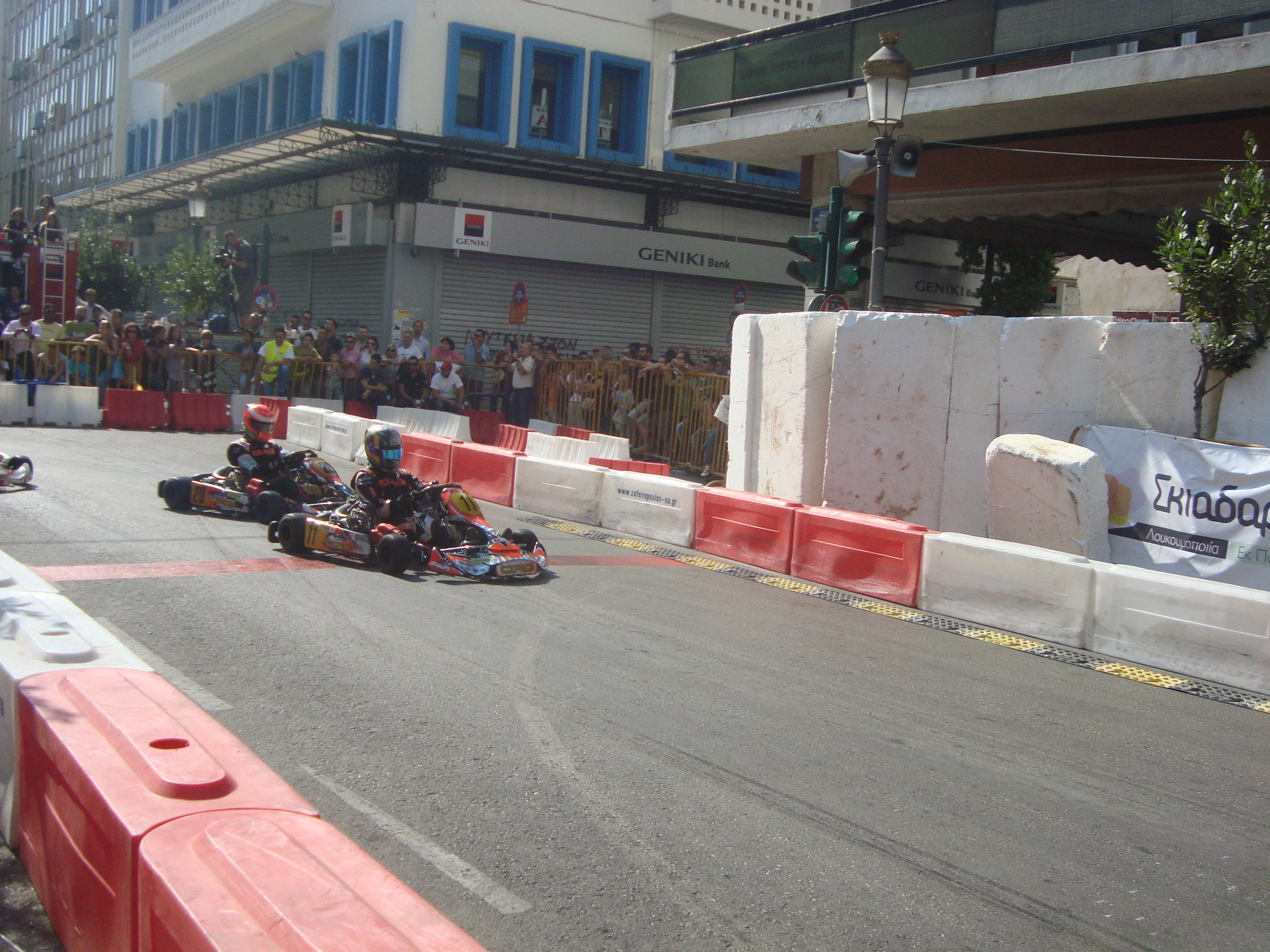 3rd Patras International Circuit for Kart 2011,,Category Super , Winner: Jonathan Thonon (World Champion)